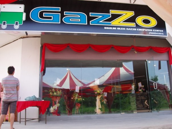 Description: GazZo Internet Cafe Source: self-made Author : Alex Cheng